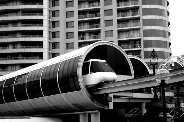 the monorail stop in darling harbourcircles and lines